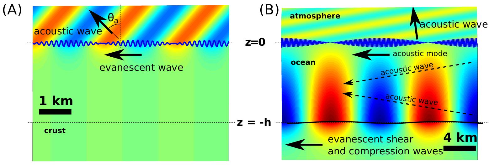 Example of vertical cross-section of the pressure pattern, in colors, radiated by a pair of interacting ocean wave trains of period around 10 s. The sea surface elevation, plotted as a blue line around z = 0 is the sum of the elevations of the two wave trains and has a wave group structure. (A) The periods of the two wave trains are 10 s and 9.66 s (B) 10 s and 9.94 s. Note that the vertical displacement of the sea surface is strongly exaggerated in order to make waves visible. A realistic ocean wave field includes many wave trains and thus all possible pairs of interactions radiating acoustic waves in all directions θa . As the two periods of the wave train get closer, from (A) to (B), the lengths of the groups get larger and the angle θa becomes smaller. This paper focuses on the radiated power as a function of θa . See De Carlo et al. (2020 ) for more details.